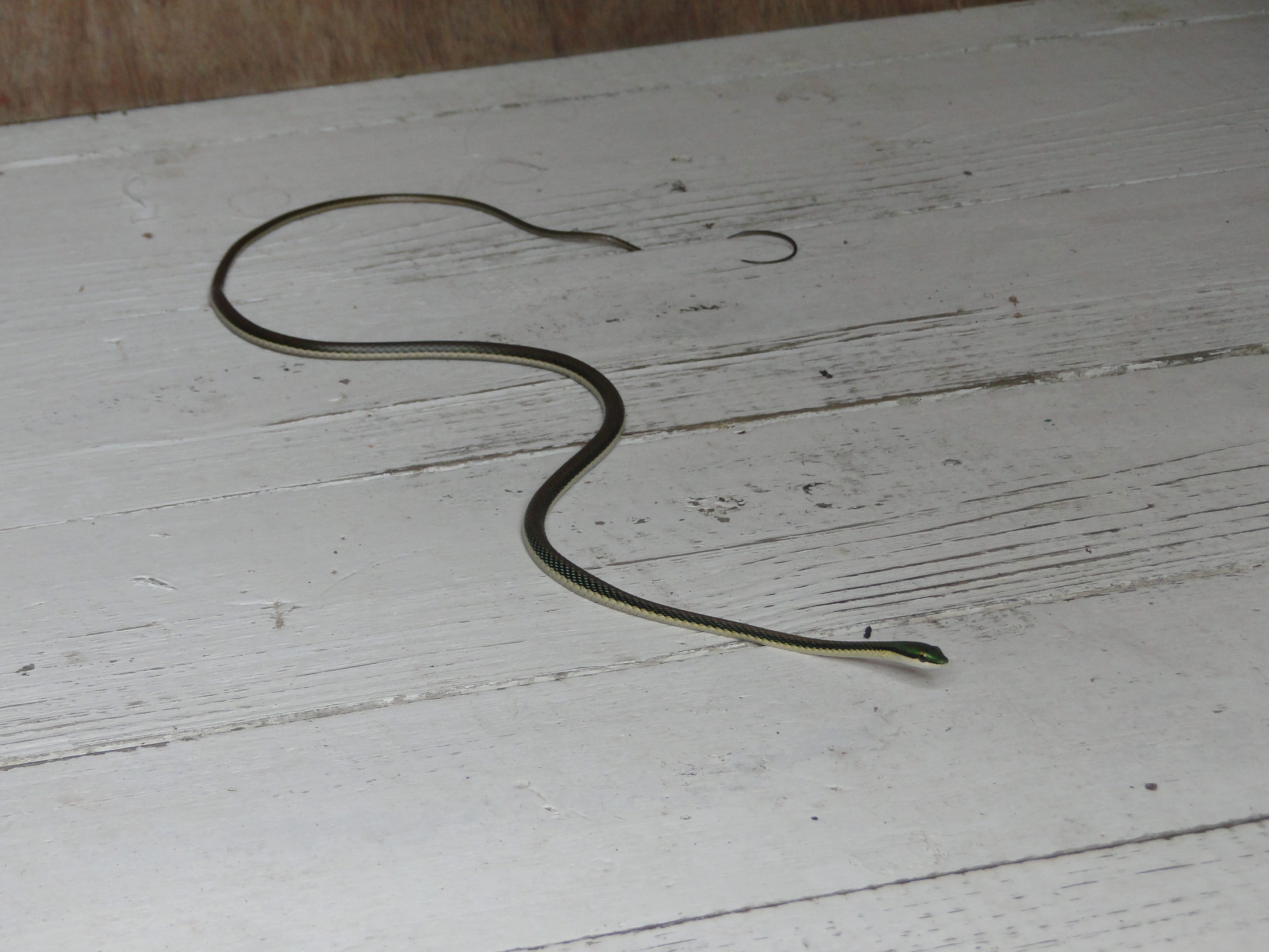 A Mexican Parrot Snake in Belize